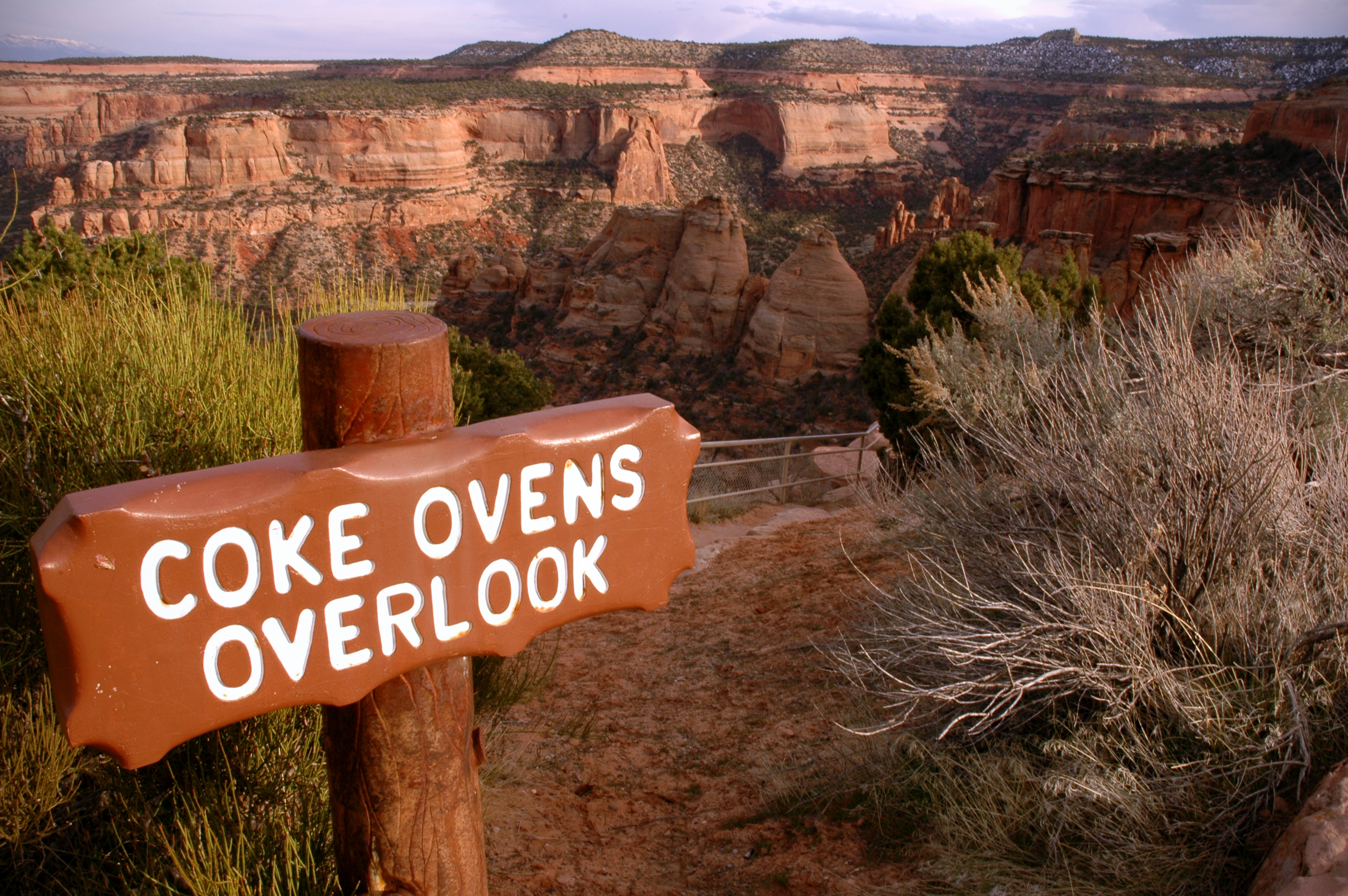 Coke Ovens Overlook in the Colorado National Monument, Colorado, USA.